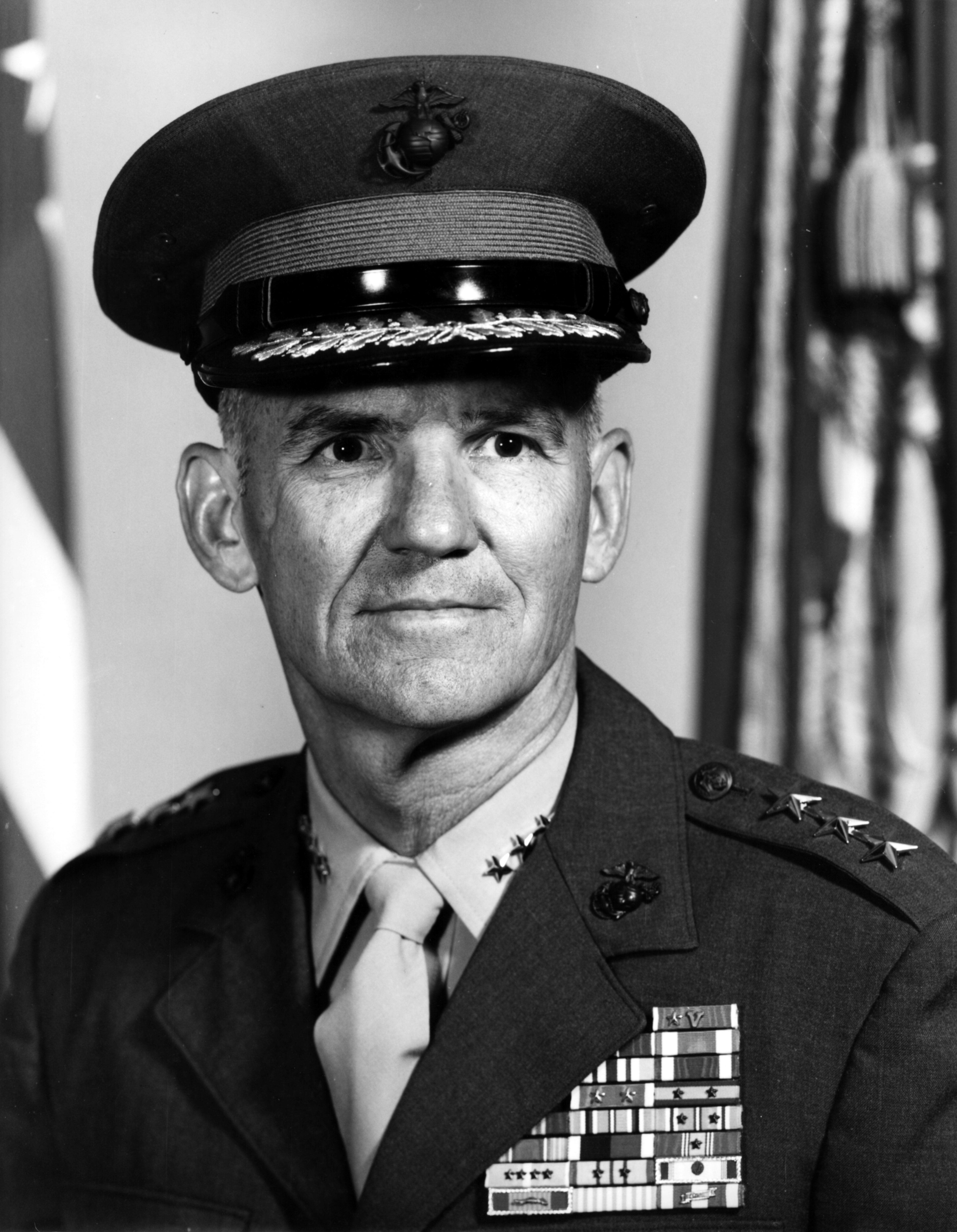 John Harrison Miller (born April 16, 1925) is a highly decorated retired lieutenant general in the United States Marine Corps. A veteran of World War II, Korea and Vietnam, Miller completed his career as Commanding general, Fleet Marine Force, Atlantic.